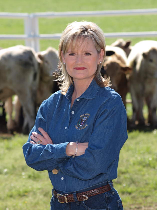 Cindy Hyde-Smith